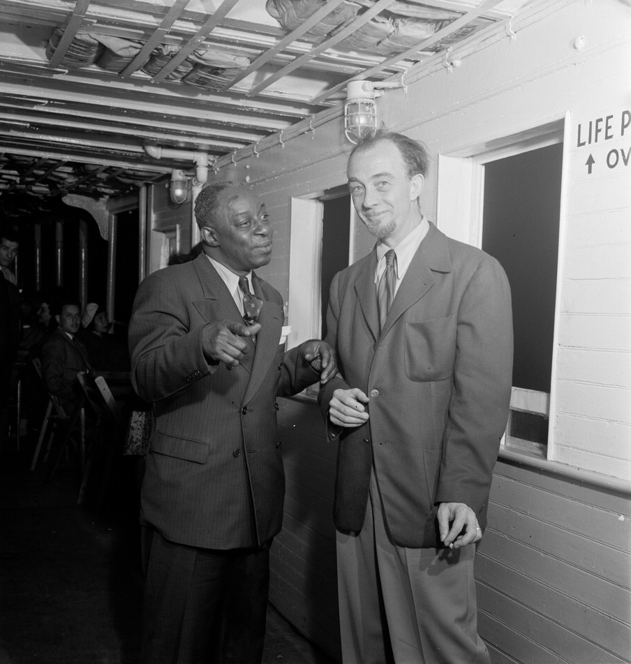 Rudi Blesh and Baby Dodds, Riverboat on the Hudson, N.Y.